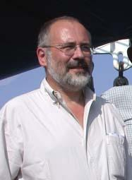 Philippe Bouchet, French scientist and zoologist